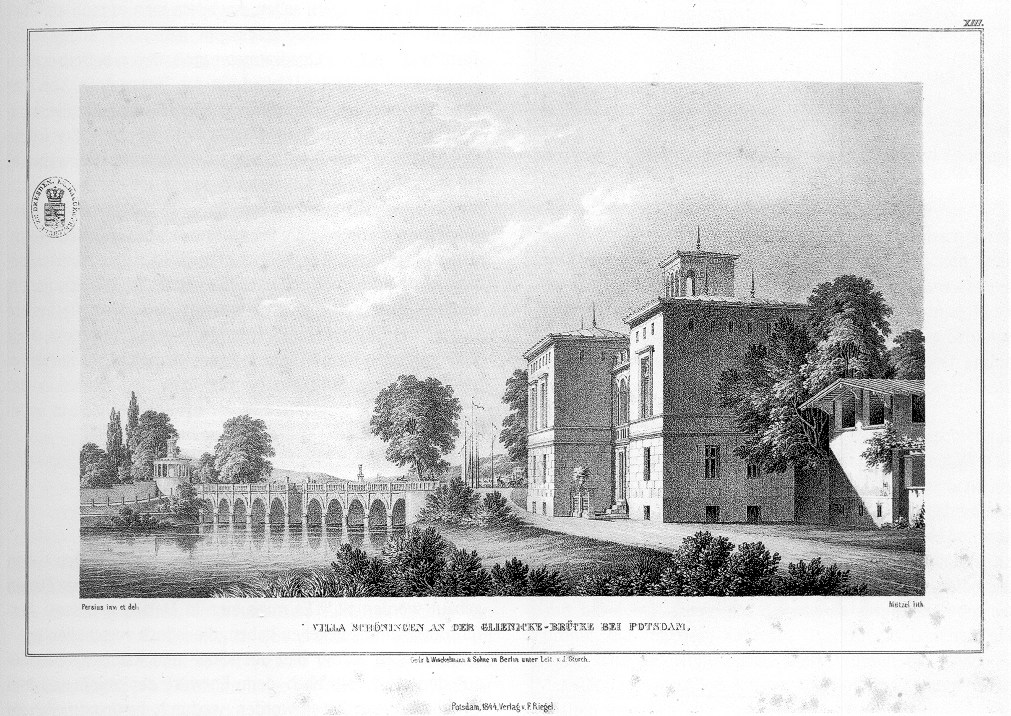 View from north, Villa Schöningen, Potsdam, Germany